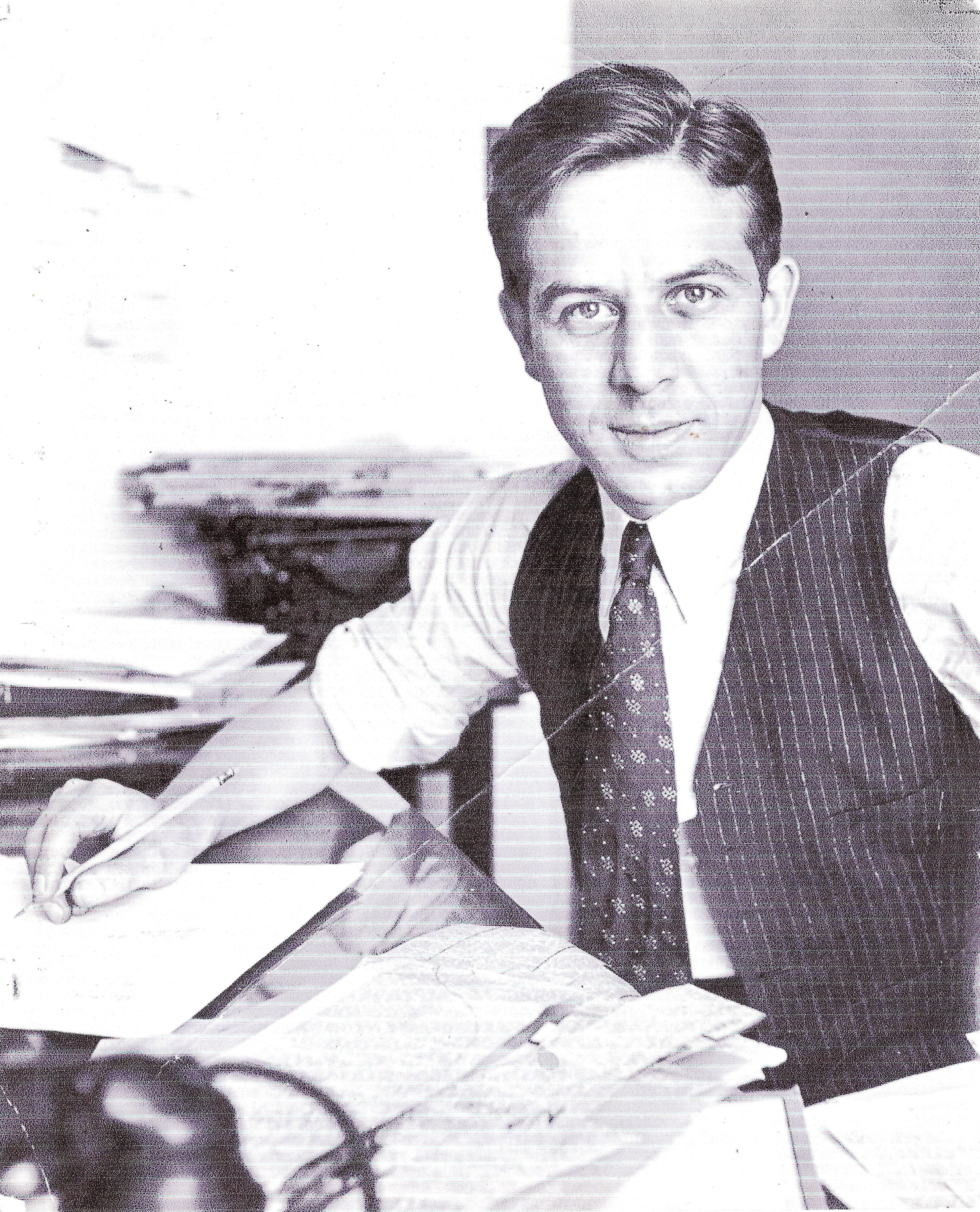 Robert Cantwell as a young man, from family archives